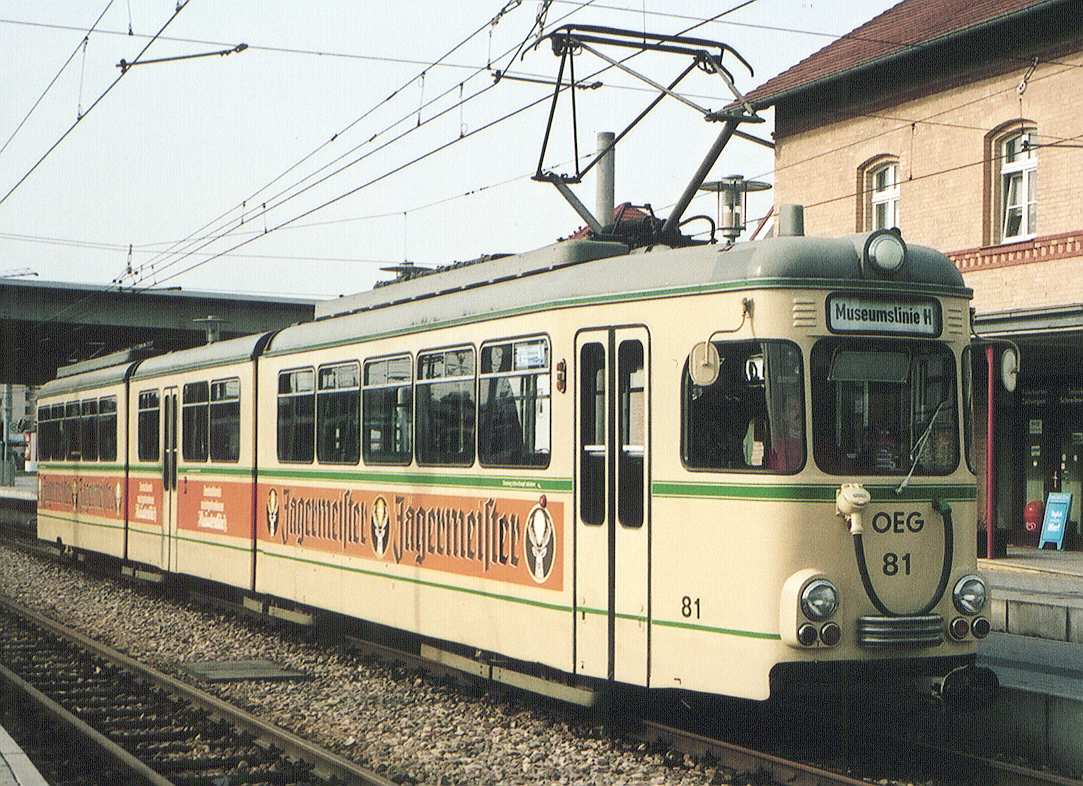 Old train of the Oberrheinische Eisenbahn-Gesellschaft in Mannheim-Käfertal germany